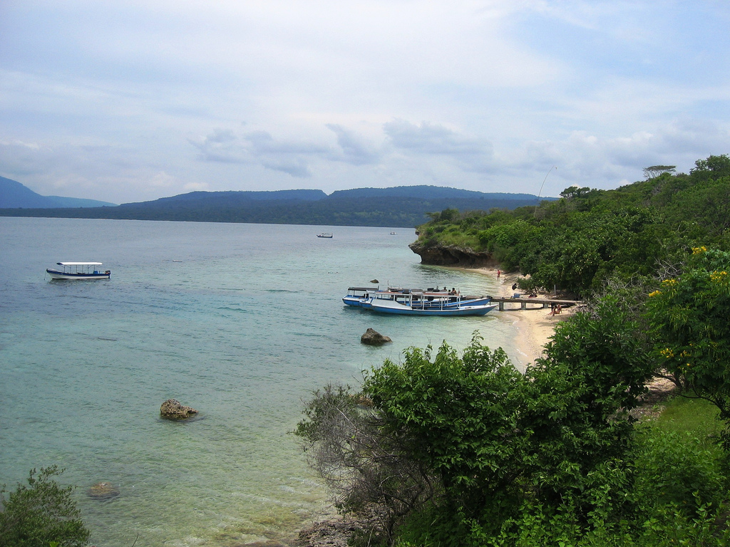 menjangan view, Menjangan Island, part of West Bali National Park, Menjangan Island.